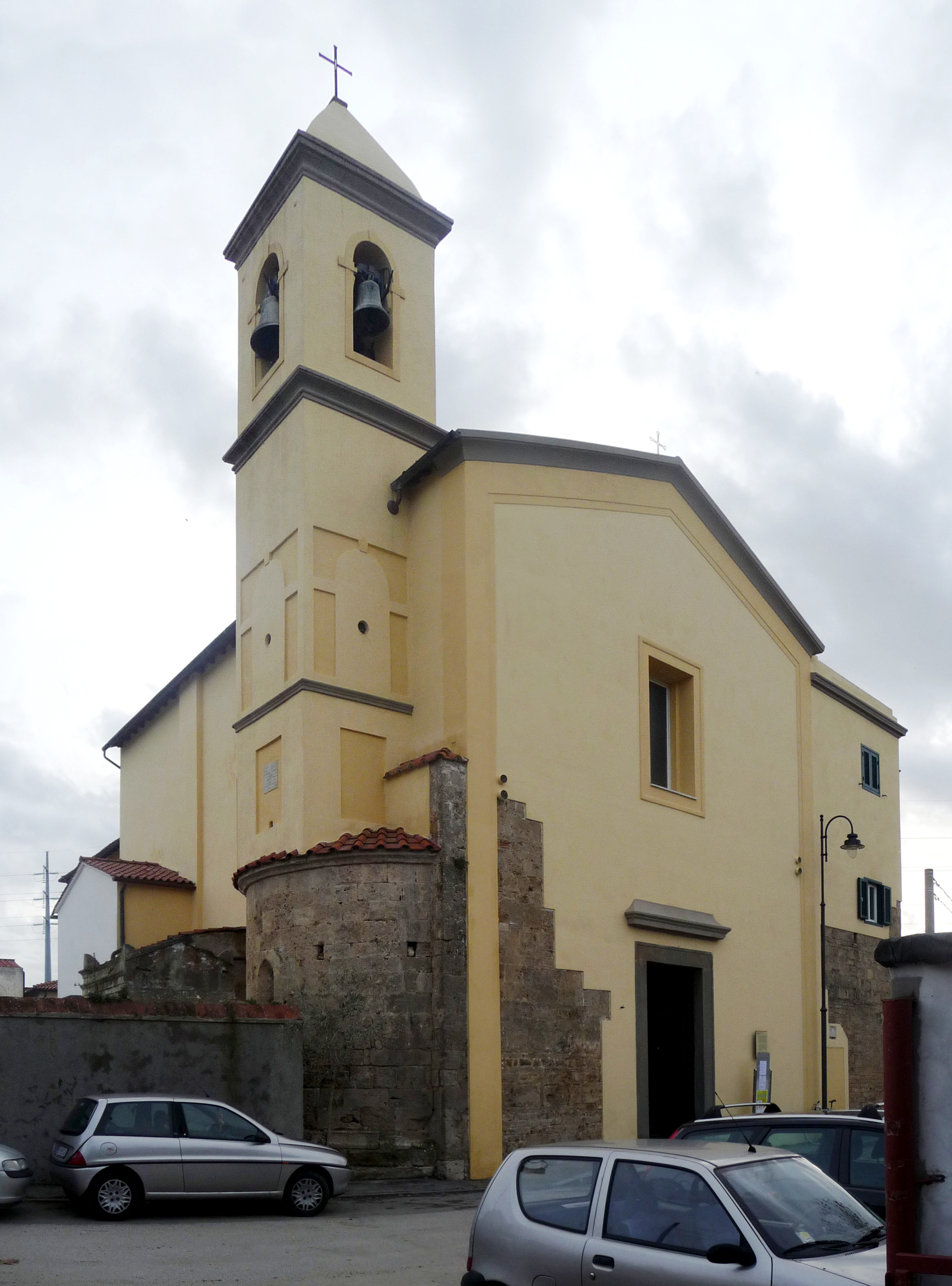 Church Chiesa di San Martino, Salviano, Livorno, Italy